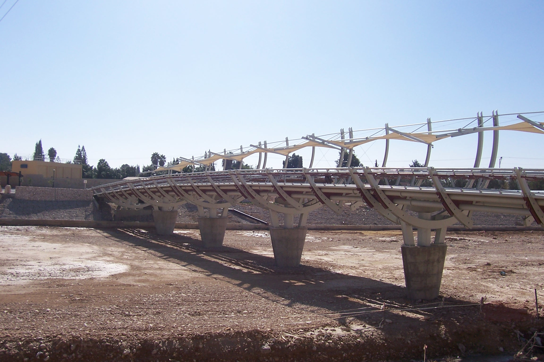 Geography of Israel